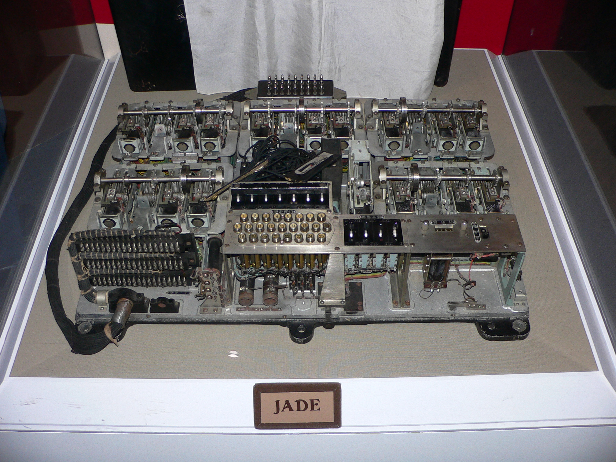 Pictures taken by myself at the US National Cryptologic Museum.